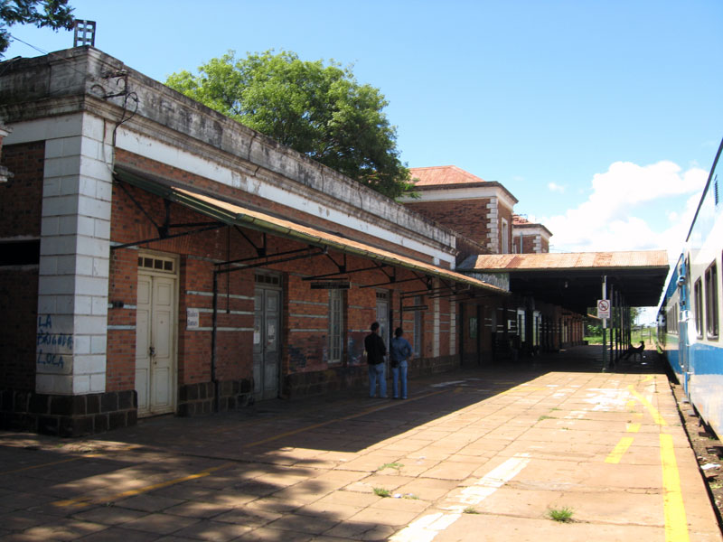 Posadas Train Station